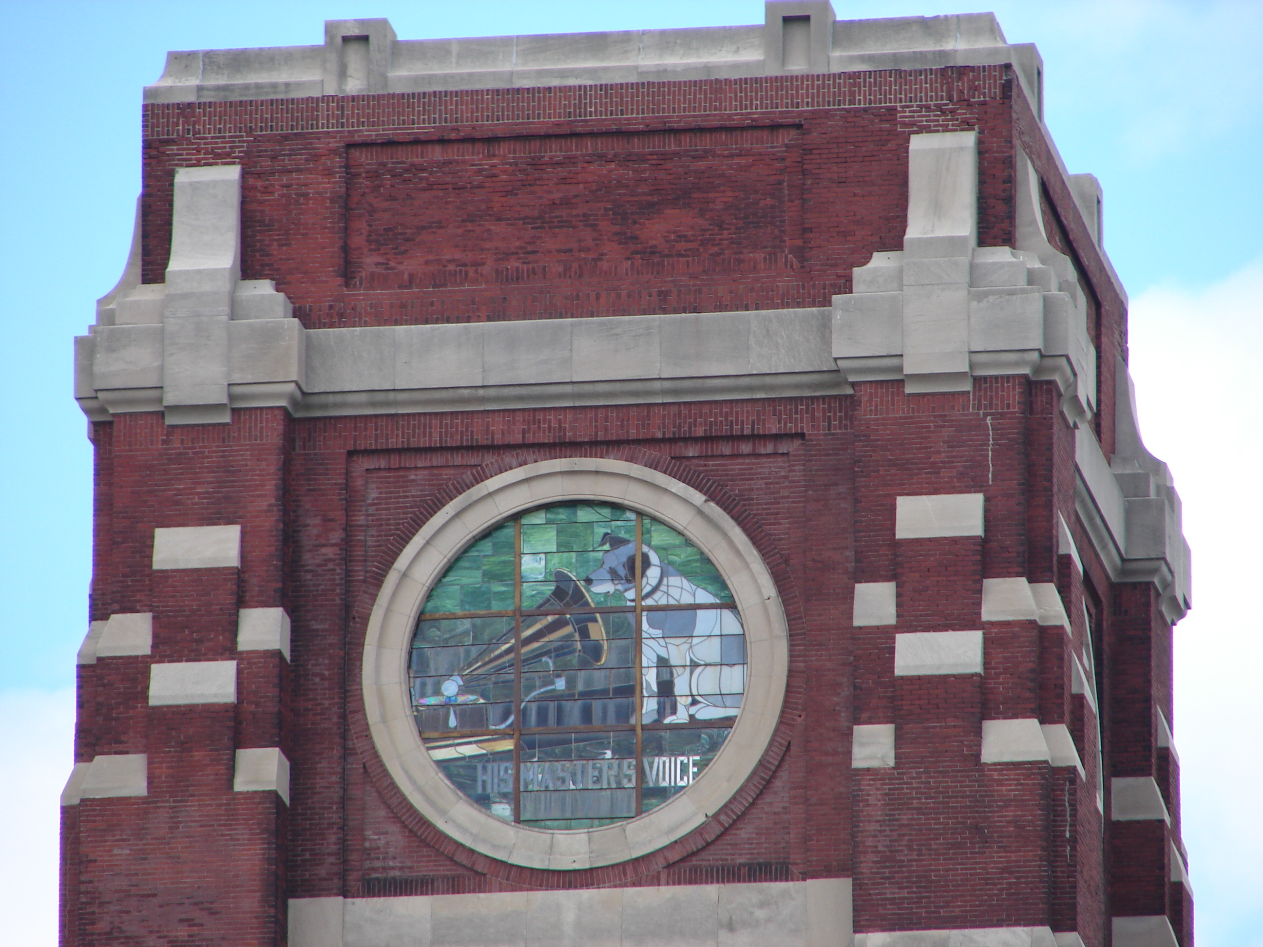 Building 17, RCA Victor Company, Camden Plant, aka 'The Nipper Building', on the NRHP since October 4, 2002. At 1 Market St., Camden, New Jersey. Used to produce RCA Victor Records and has the dog "Nipper" in a stained-glass window in the tower. Now converted to flats.